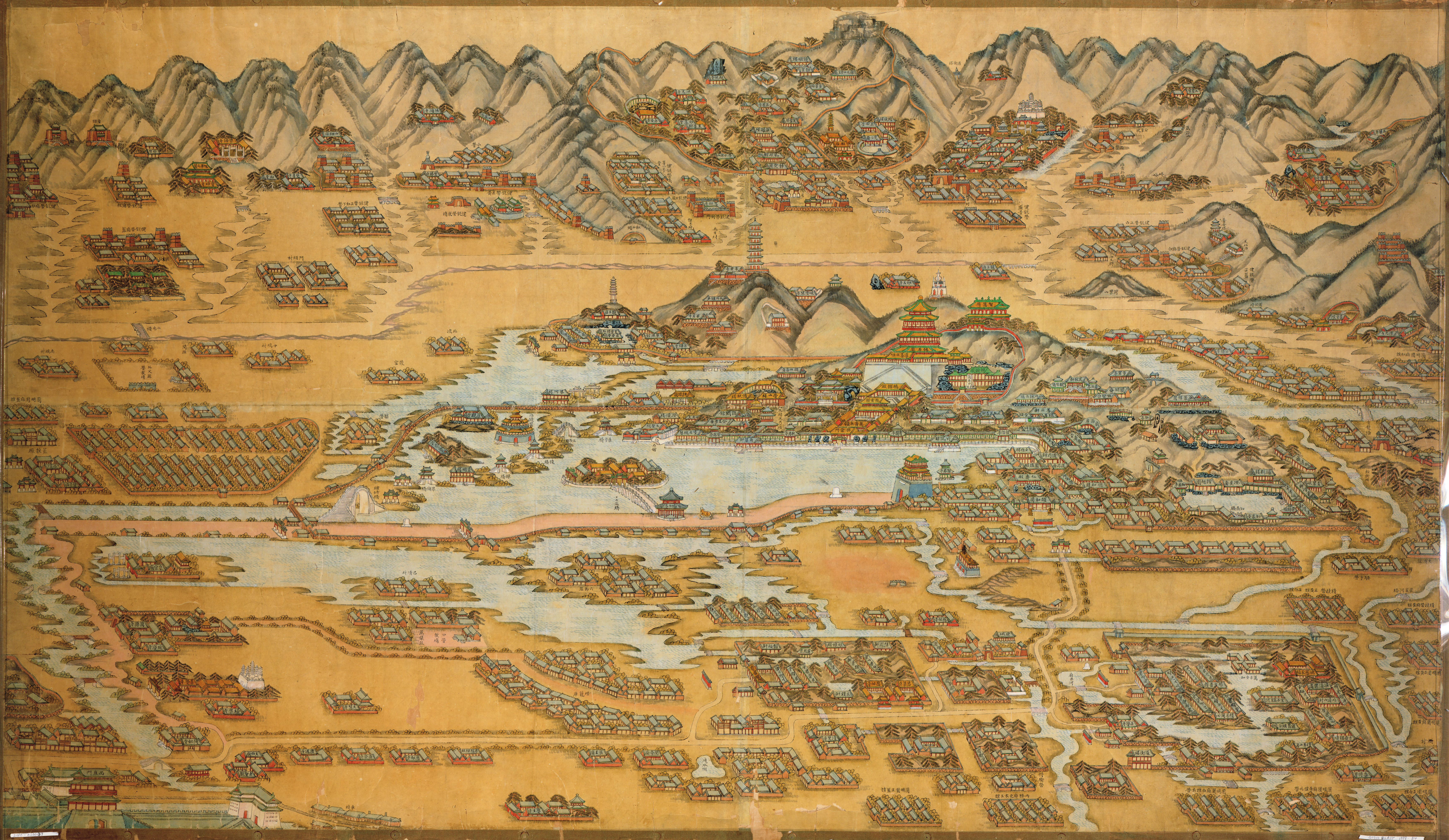 Summer Palace — 1888. Shows Eight Banners Brigade barracks, temples, villages, bridges, mountains, and the Summer Palace gardens and structures. Pen-and-ink and watercolor pictorial map, with relief shown pictorially. Gift; Thomas Goodrich; 2006. Not drawn to scale.